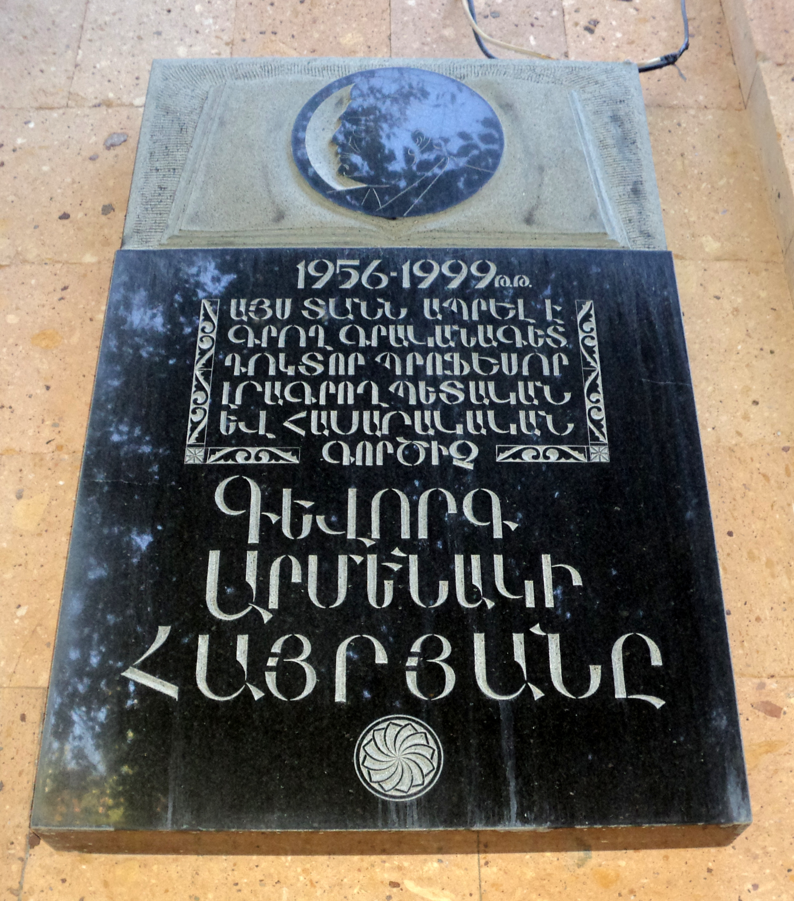 Gevorg Hayryan's plaque